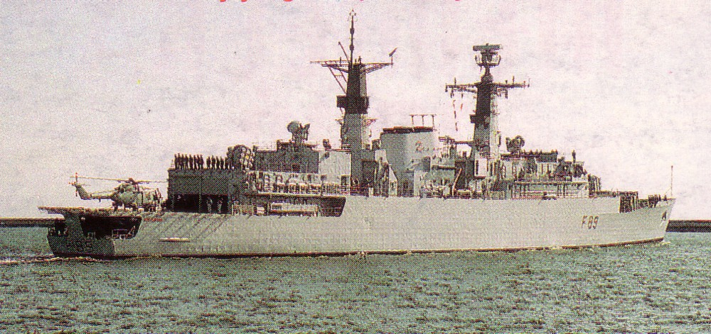 HMS Battleaxe (F89) frigate